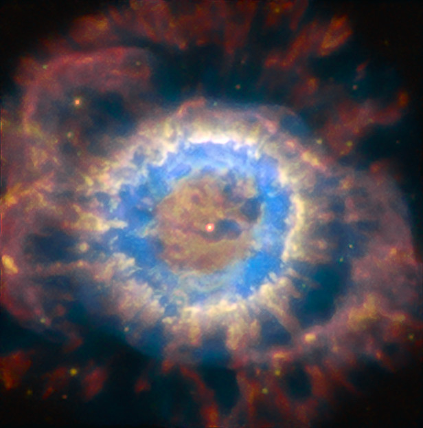 Known as the Little Ghost Nebula, NGC 6369 is a planetary nebula in the constellation Ophiuchus, the serpent-bearer. The nebula is relatively faint with an apparent magnitude of 12.9 and the clear detail of this image shows the power of the AOF-equipped MUSE instrument of the VLT. The white dwarf star is clearly visible in the middle of the nebular gas, which is expanding out in rings.